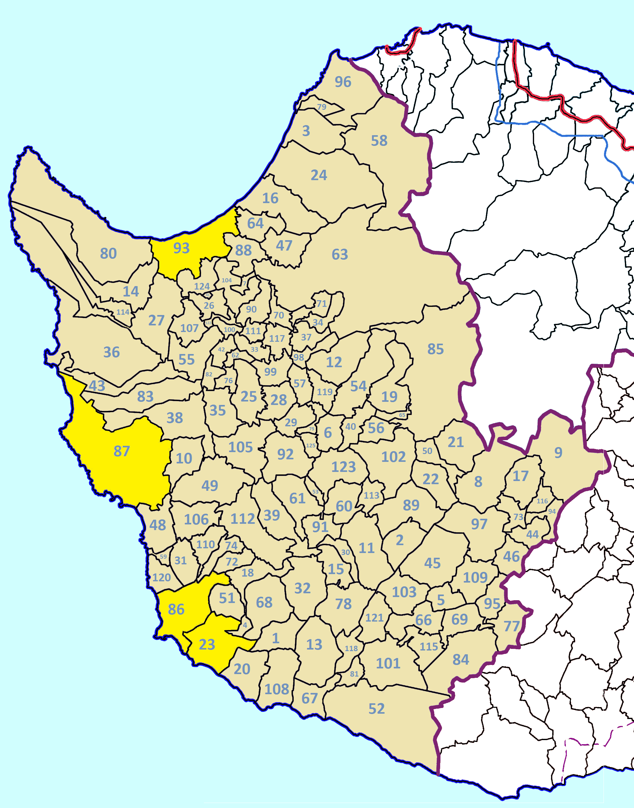 The municipalities and the communities of Paphos District (the list is based on Greek alphabet).